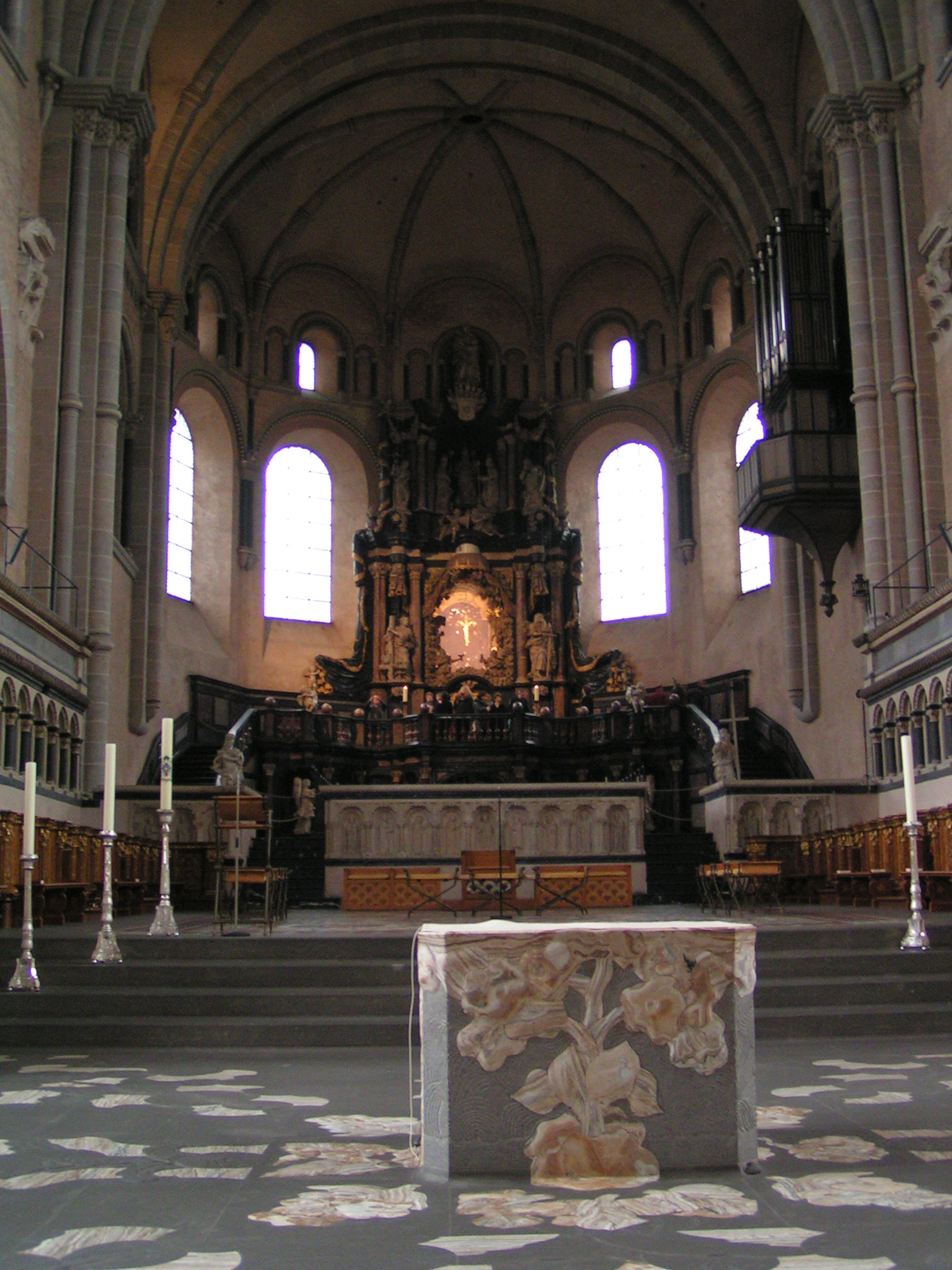 Cathedral of Trier, Rhineland-Palatinate, Germany